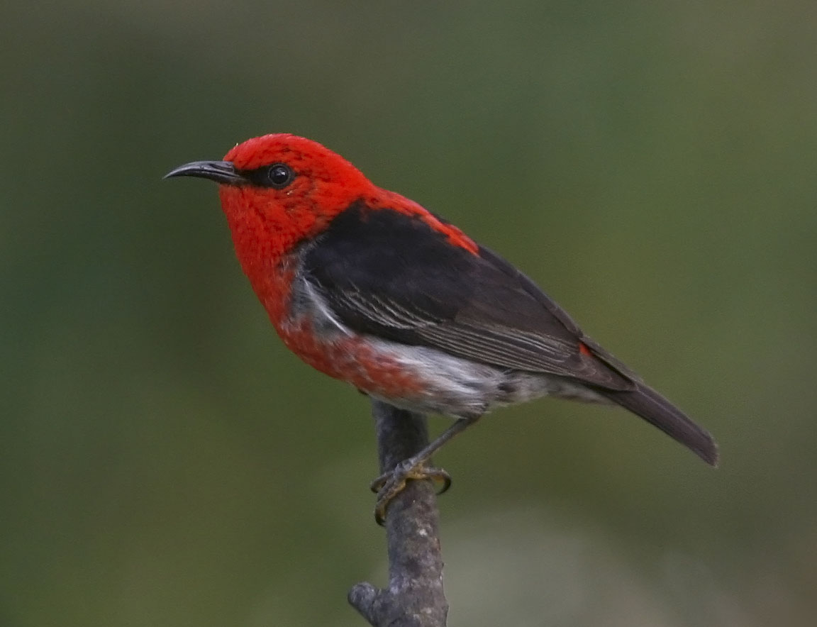 Scarlet Honeyeater